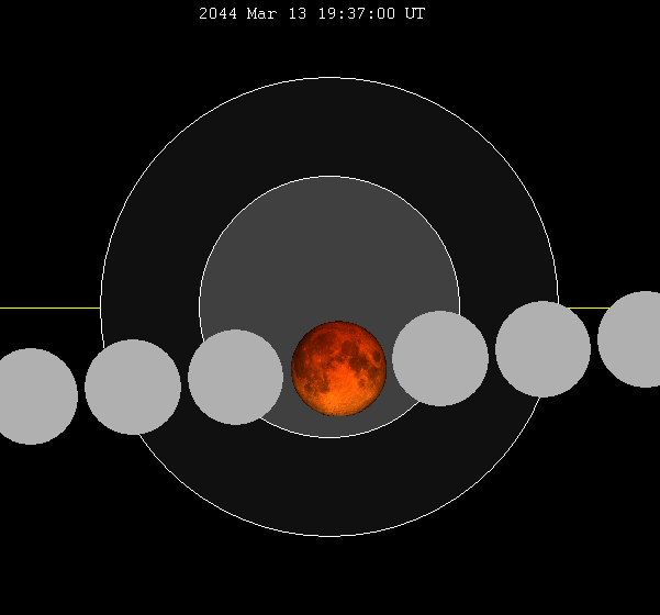 March 2044 lunar eclipse chart of moon's path through the earth's shadow. thumb